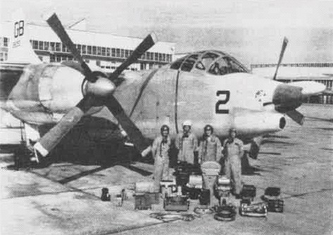 Crew and camera equipment of a North American AJ-2P Savage of the U.S. Navy heavy photographic squadron VAP-62 in 1958.